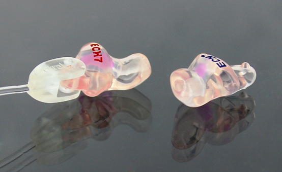 Custom Earplug